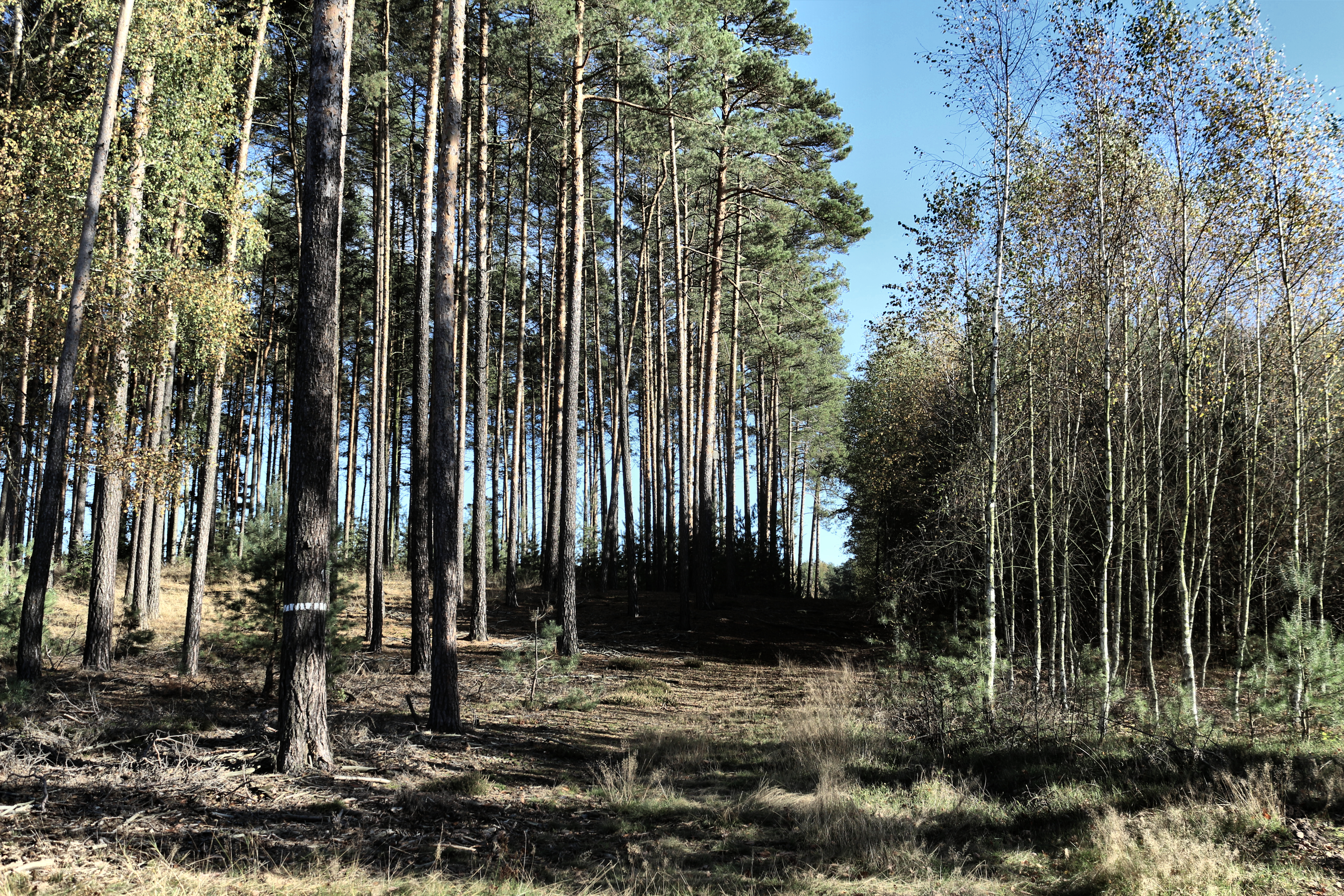 Przemęt Landscape Park, Góra Solna